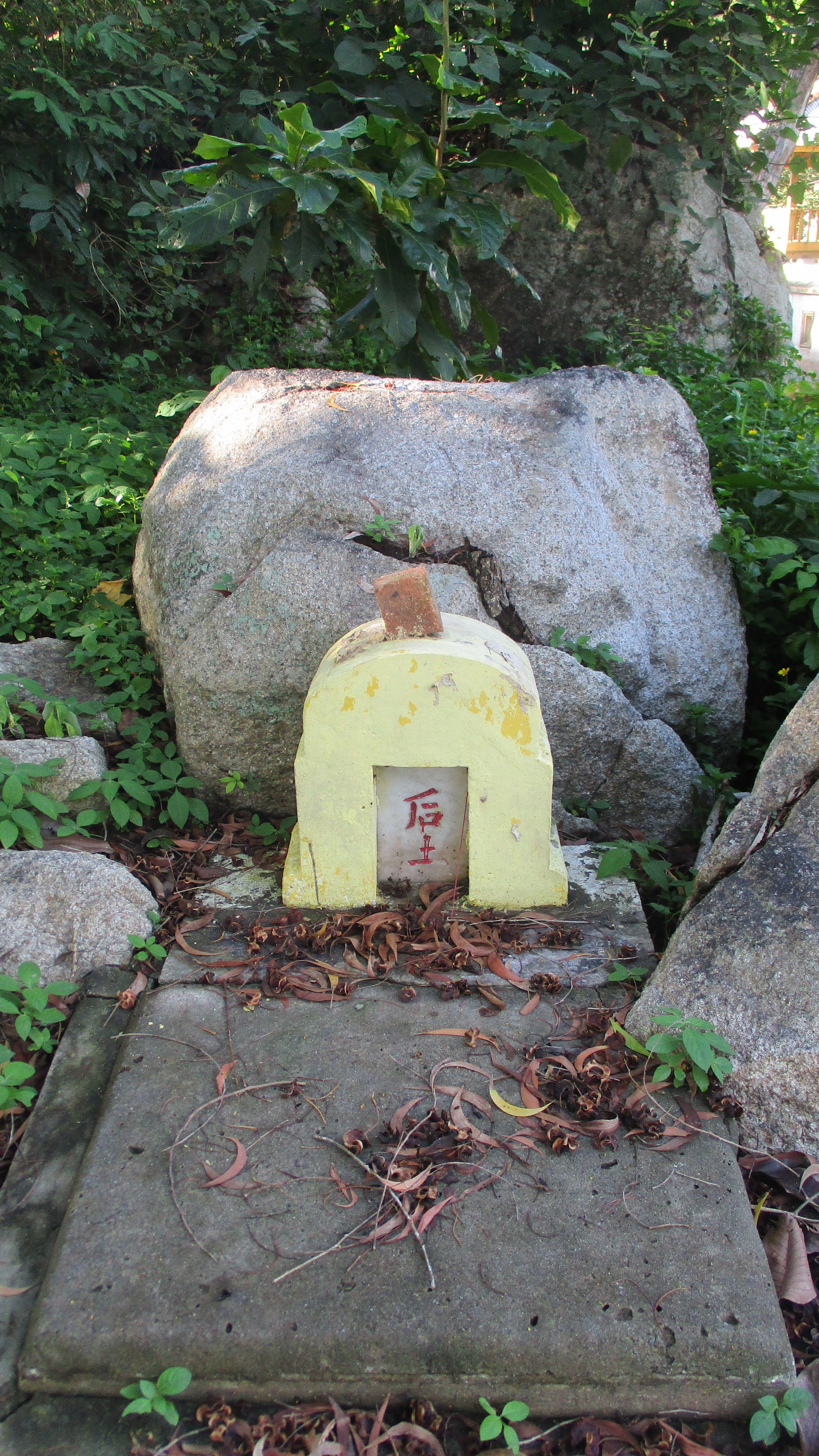 Hou Tu Altar in a shore near Sungailiat, Bangka Island.